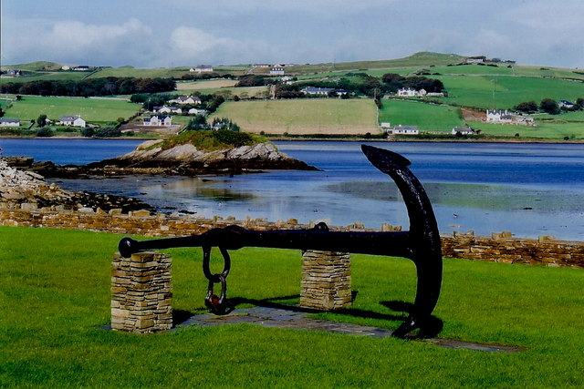 Dunfanaghy - Small park across from Arnold's Hotel This small park is between N56 and Sheephaven Bay.